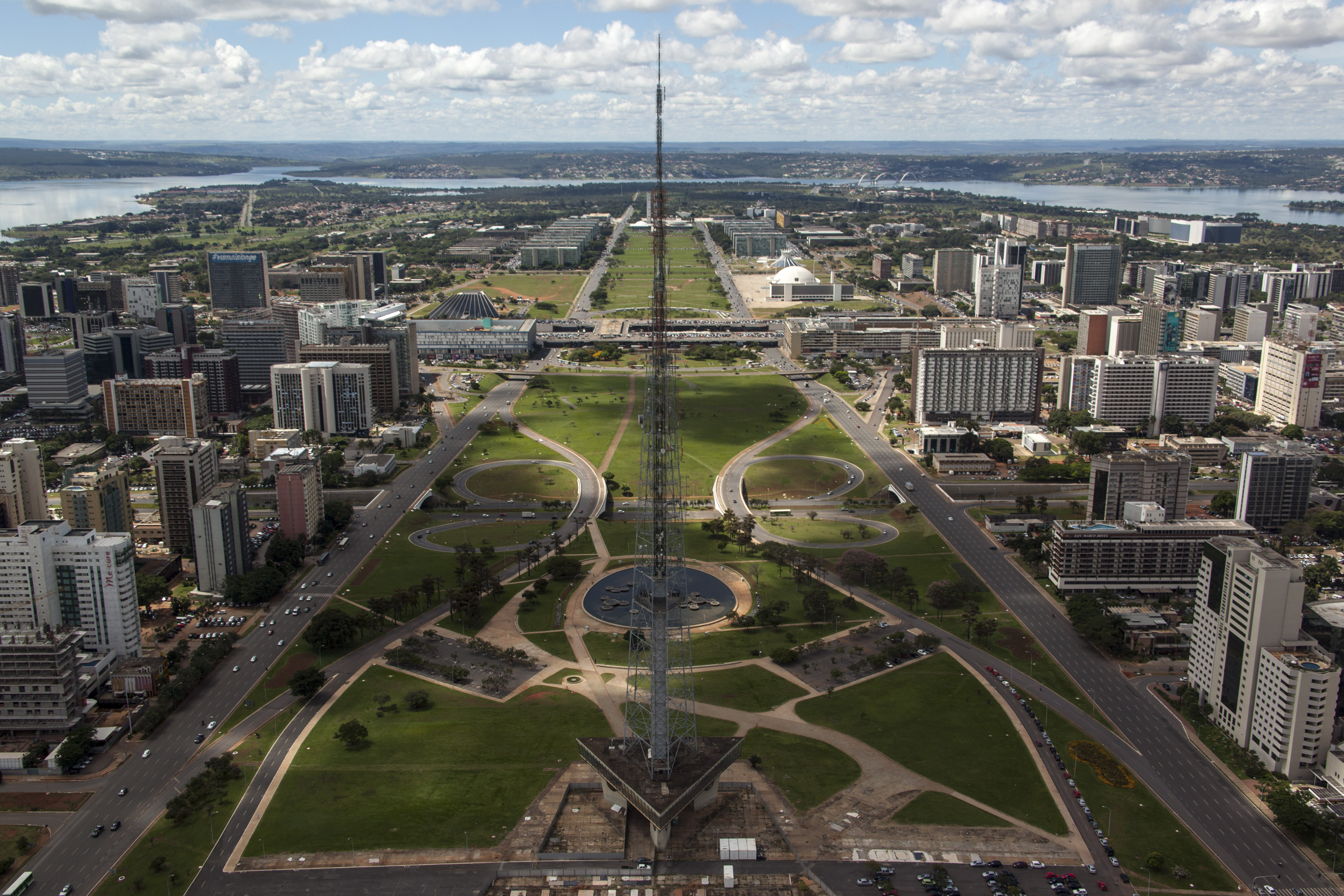 Downtown Brasilia